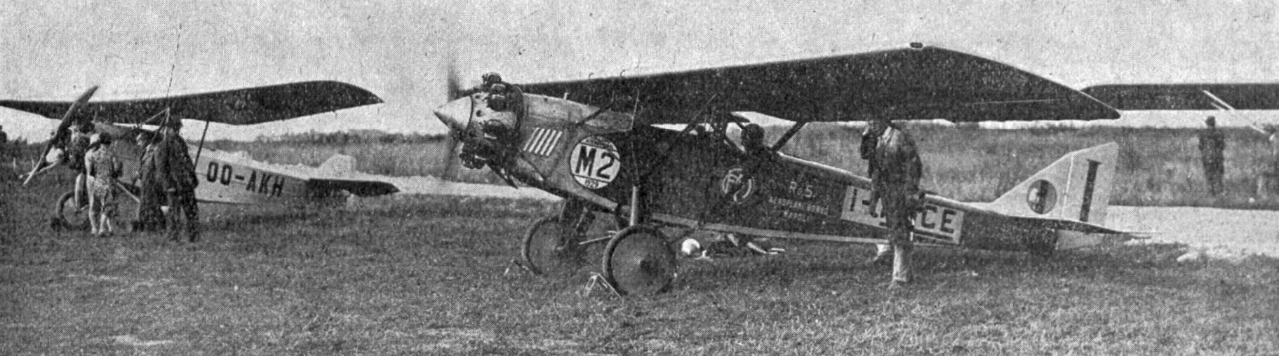 Orta St Hubert G.1 (left) and Romeo Ro.5 (right). Photo from L'Aérophile September,1929